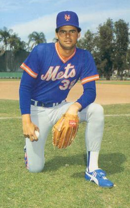 Professional baseball player Rick Aguilera